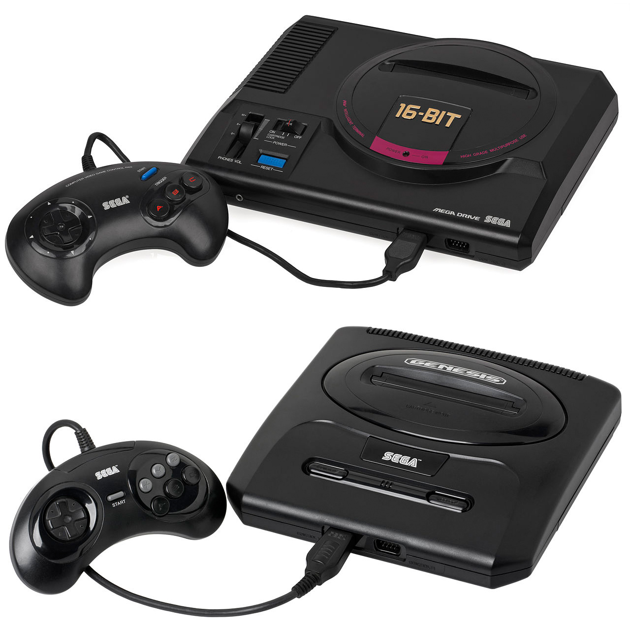 Combined image of Sega Mega Drive and Genesis for Picture of the Day on the English Wikipedia